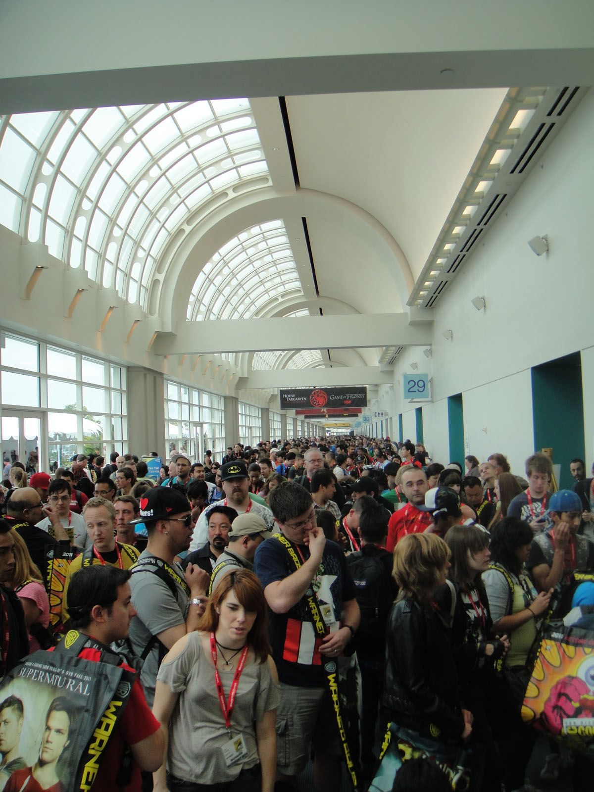 Crowds line up on the west side of the second floor south area of the San Diego Convention Center waiting for the Exhibition Hall to open.